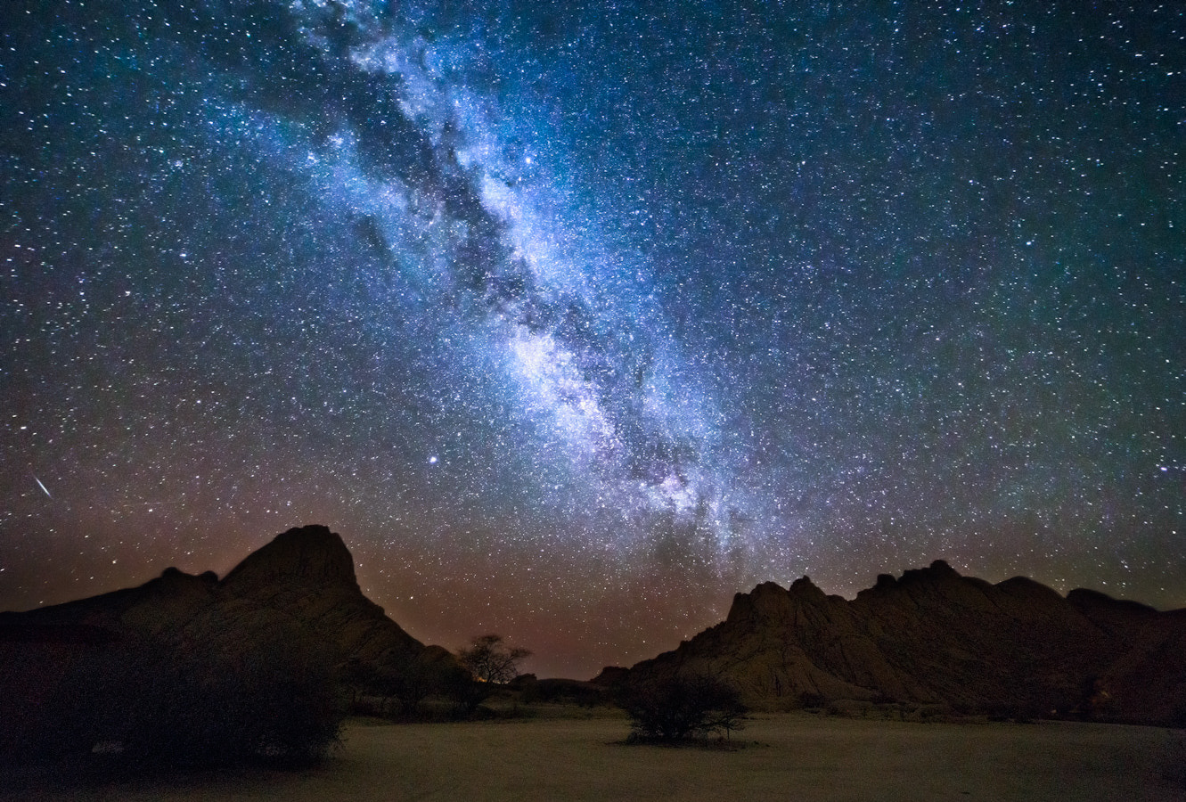 500px provided description: Spitzkoppe Sky [#sky ,#mountains ,#stars ,#africa ,#desert ,#loneliness ,#camping ,#milky way ,#namibia]